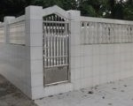 Tomb of Minak Ngegulung Sakti, a folk hero in Menggala, Lampung.